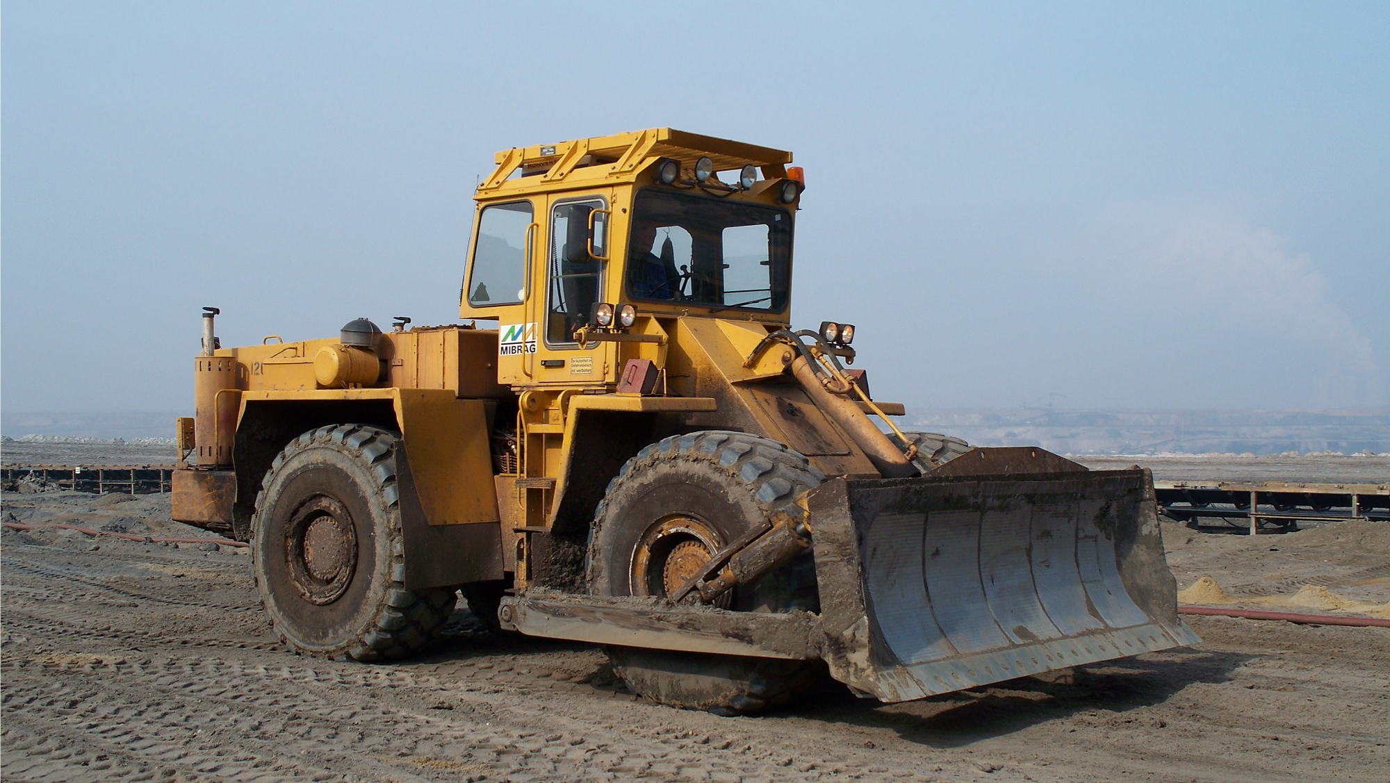 A Zettelmeyer ZD 3001 wheeled-bulldozer in the brown coal open pit mine Vereinigtes Schleenhain.